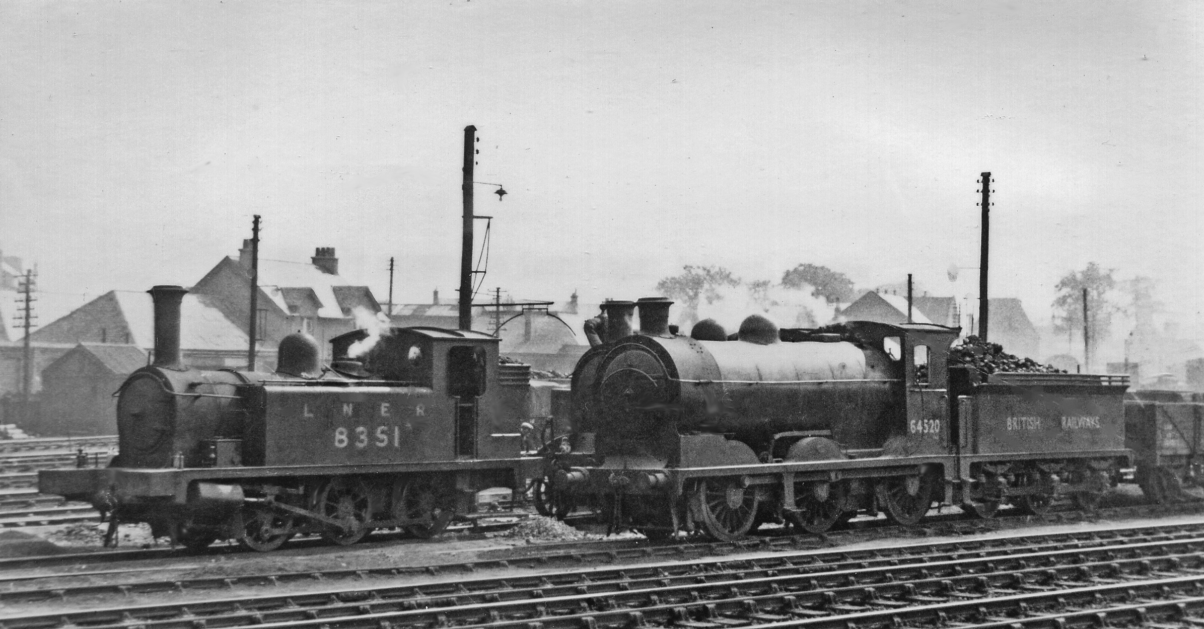 Locomotives in the yard of Stirling (Shore Road, LNER) Depot. View eastwards, from a passing train on the Perth etc. - Glasgow etc. ex-Caledonian main line. The Depot served the LNER (ex-North British) lines, which came to Stirling from Dunferline and Alloa in the east and from Balloch to the west. In 1947 it had an allocation of 22 engines (2 4-4-0, 15 0-6-0, 2 2-6-2T and 3 0-6-0T), also one steam railcar. It closed on 16/9/57. The two engines in the view were J88 0-6-0T No. 68351 and J35 0-6-0 No. 64520, both ex-NB.